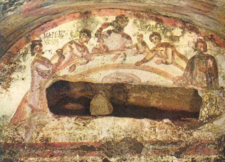 Painting of a feast / Early Christian catacombs / Paleochristian art. Fresco of female figure holding chalice in the Agape Feast. Catacomb of Saints Pietro e Marcellino (Saints Marcellinus and Peter), Via Labicana, Rome, Italy.